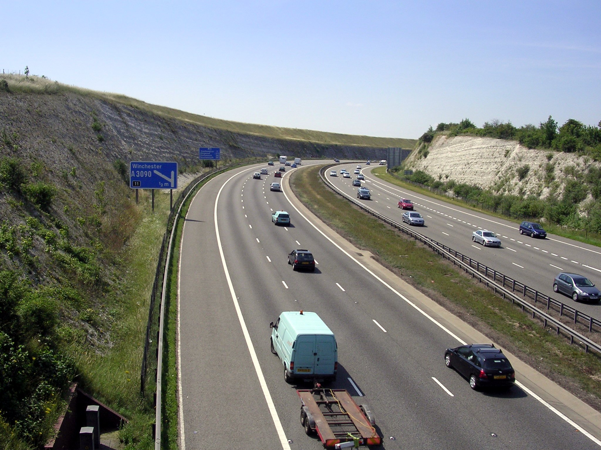 The M3 in the Tywford Down cutting, near Winchester, England. Looking in the direction of Junction 11 from the footbridge.